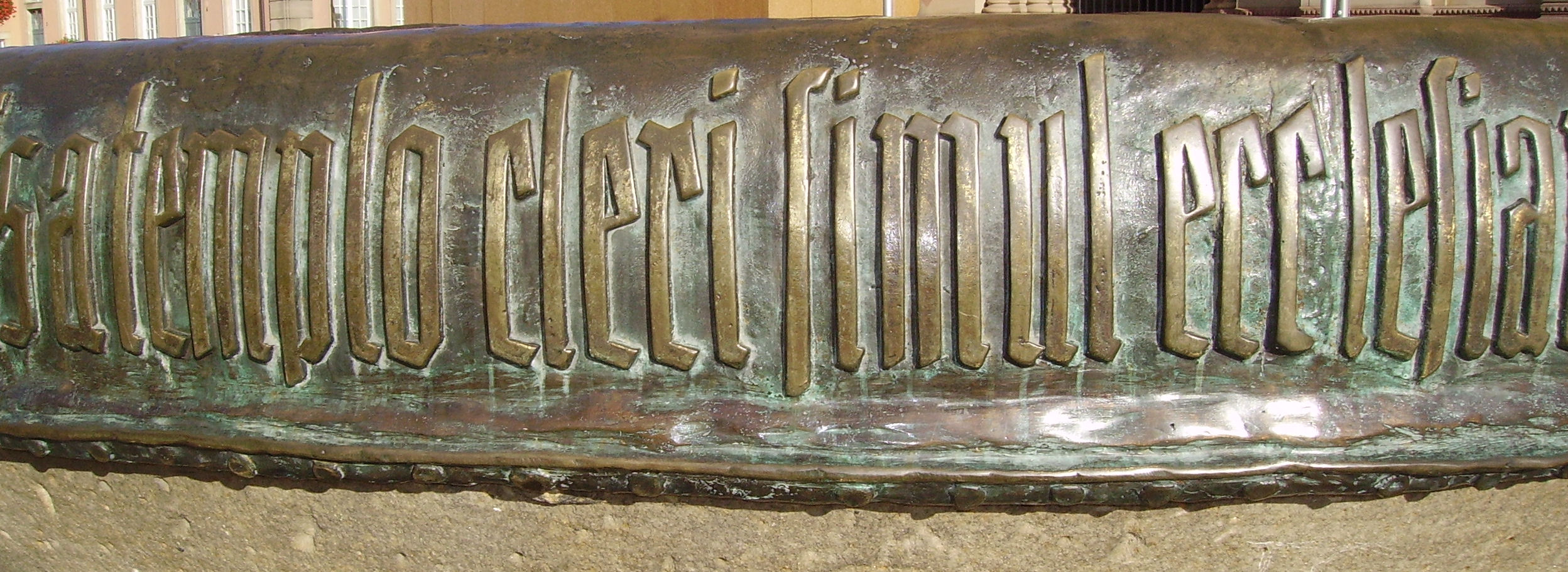 Description: Speyrer Dom (Cathedral of Speyer, Germany) Source: own photography Date: November 2005 Author: --Immanuel Giel 12:25, 7 November 2005 (UTC) Other versions: none